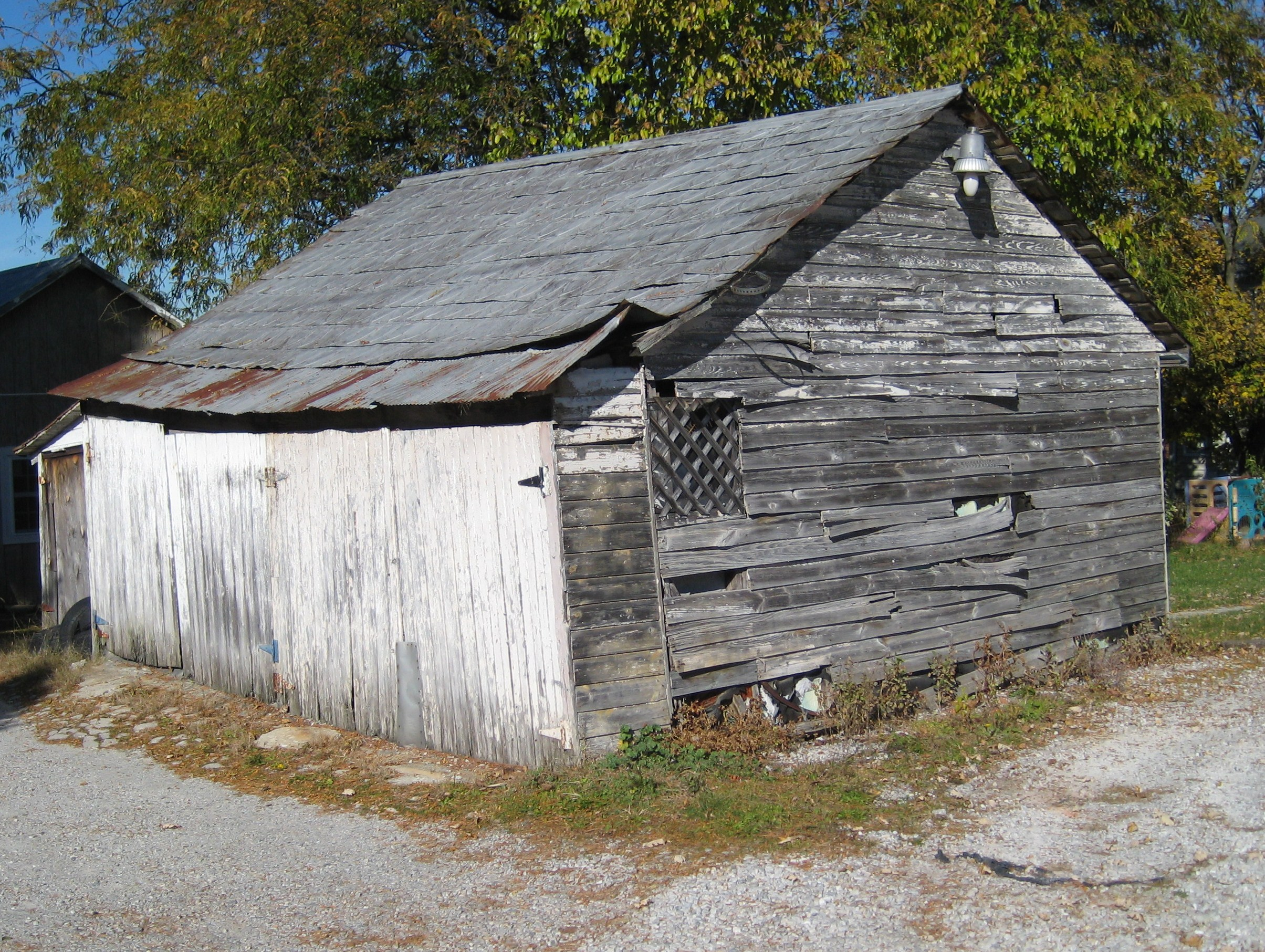 Tin roof on a garage in Union Township, Adams County, near Hanover, Penysylvania